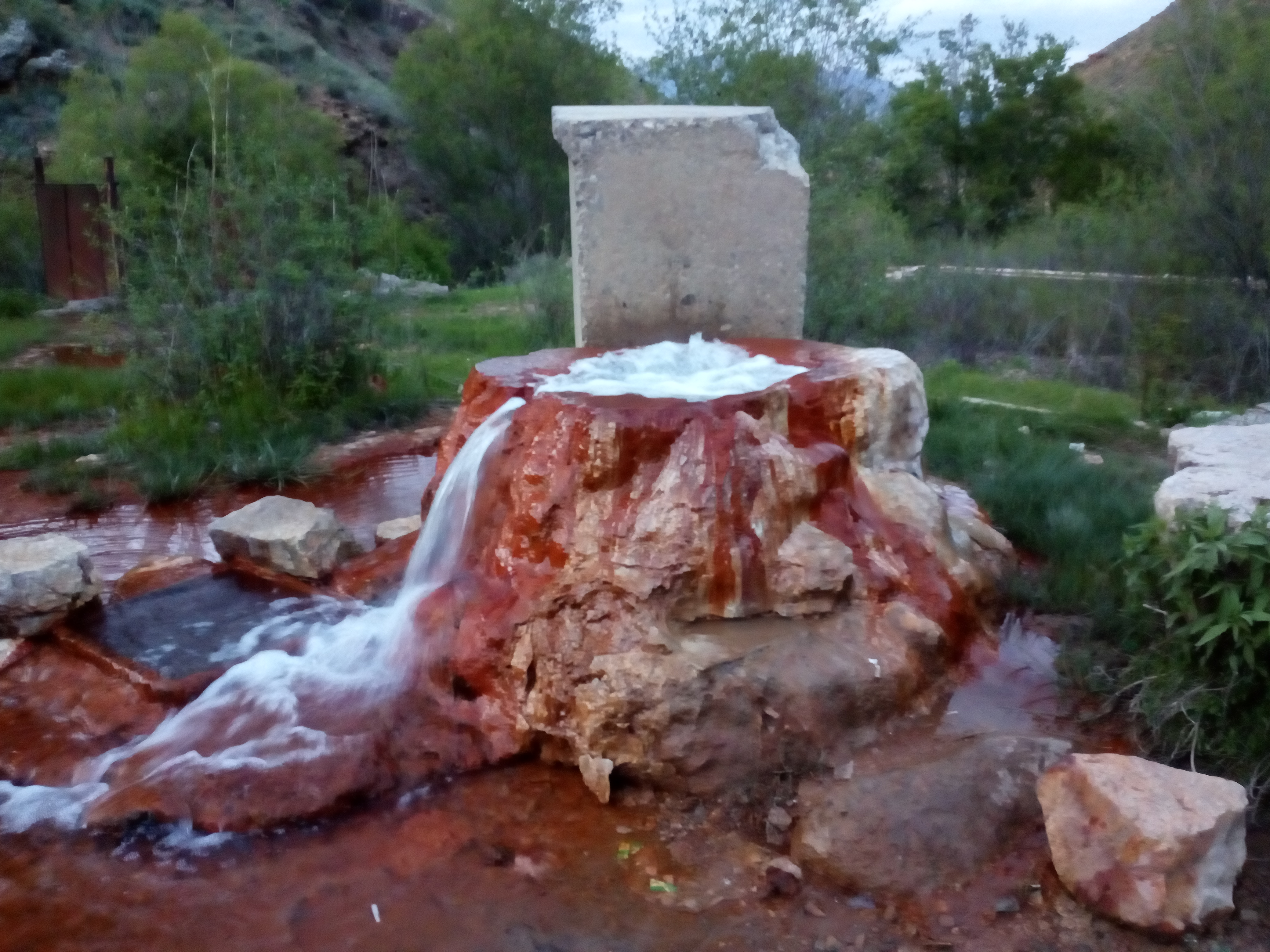 Grav spring